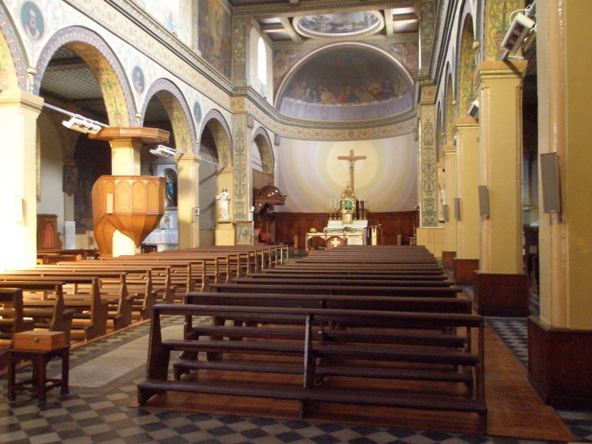 Св.Лудвиг - интериор